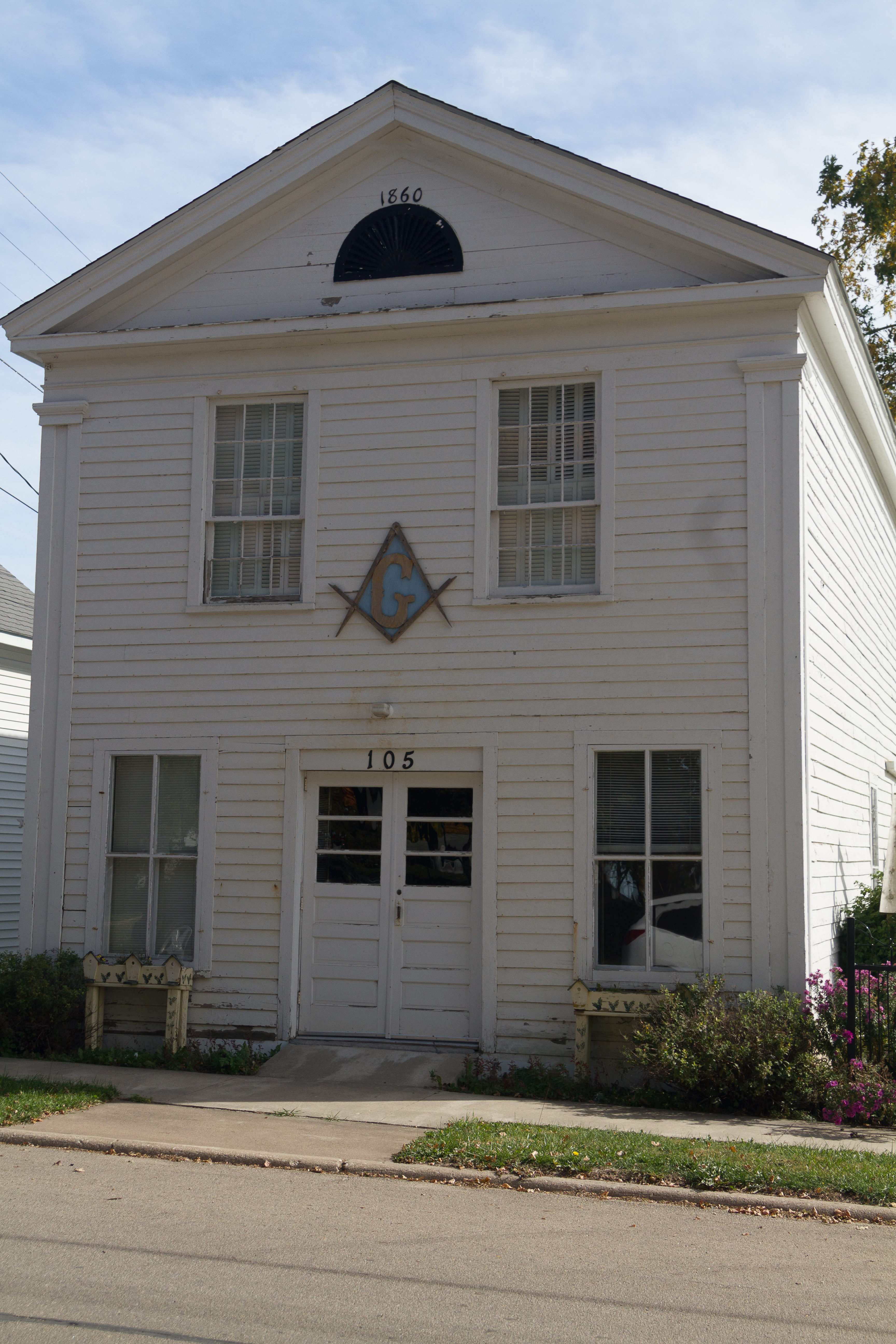 The I.O.O.F. Hall, in Garnavillo, Iowa, also known as Garnavillo Lodge Hall, is a Greek Revival style building built in 1860